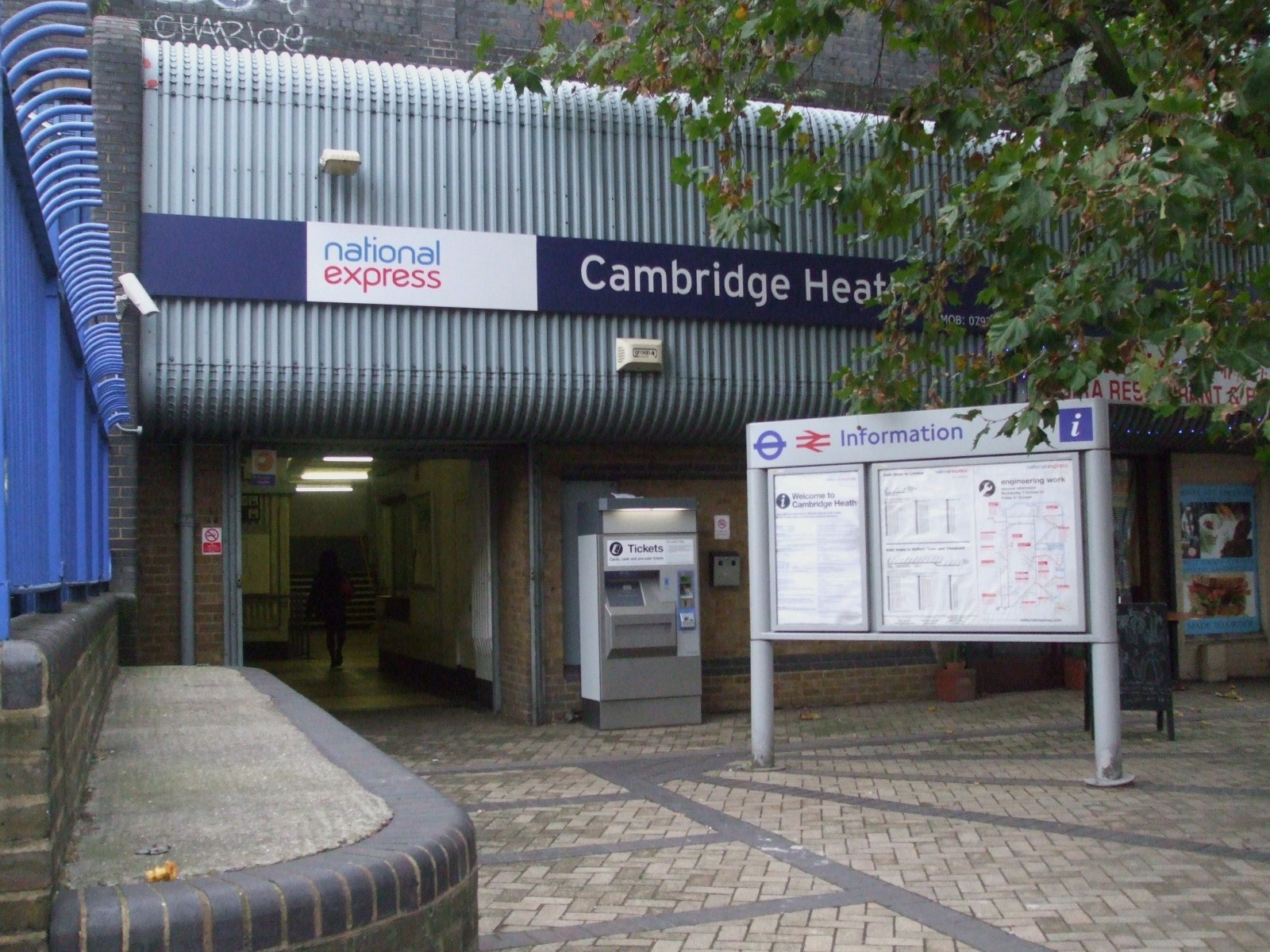 Cambridge Heath station entrance.